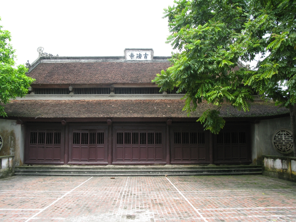 The main hall of Dận Pagoda, Từ Sơn, Bắc Ninh, Việt Nam